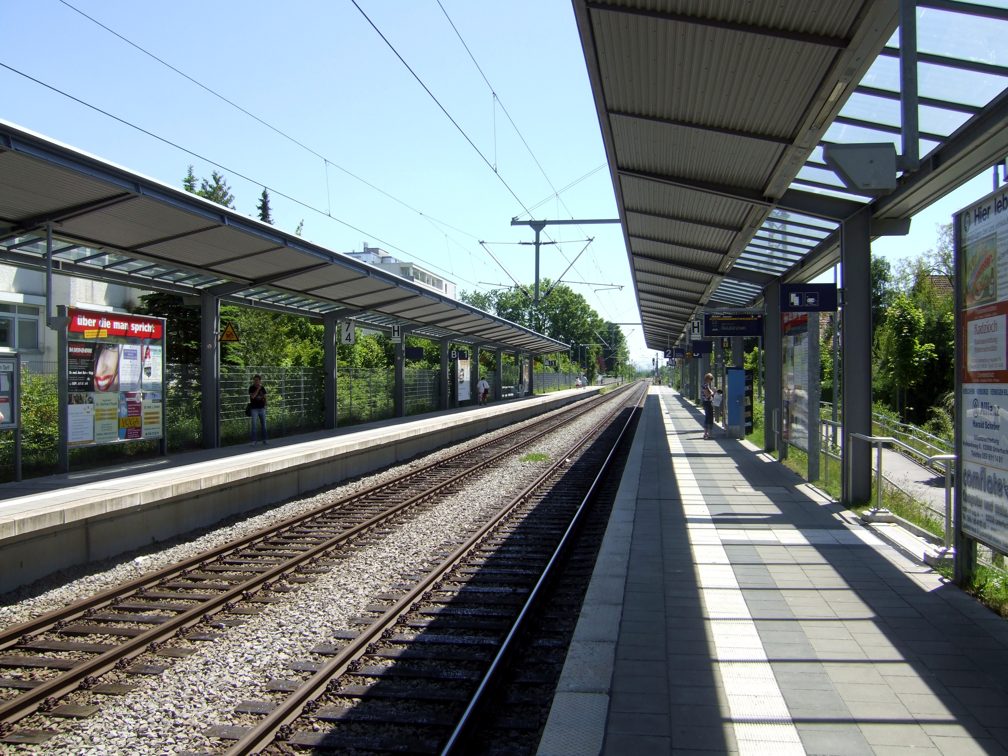 Unterhaching: S-Bahn stop